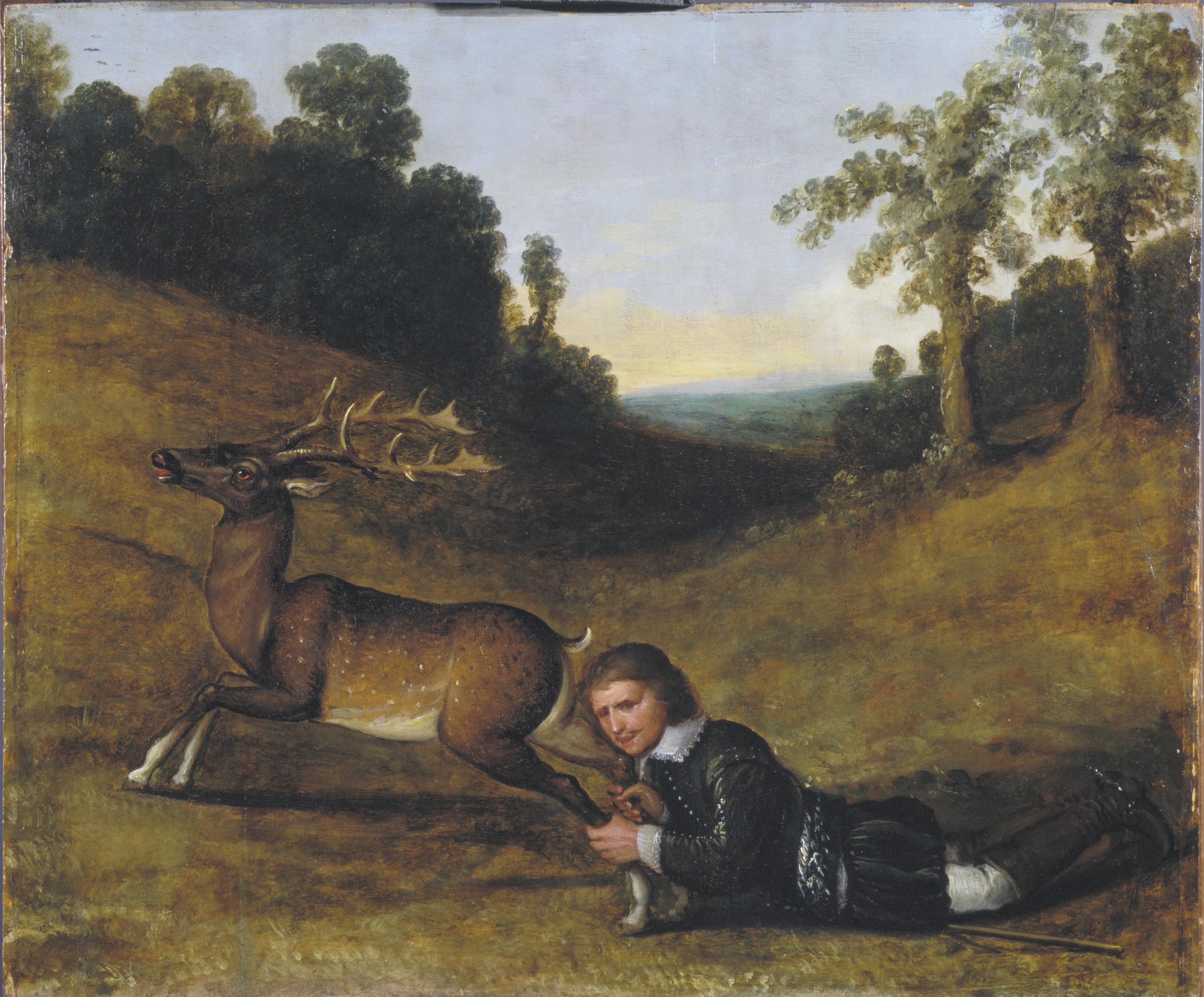 Colonel Smith Grasping the Hind Legs of a Stag -oil painting